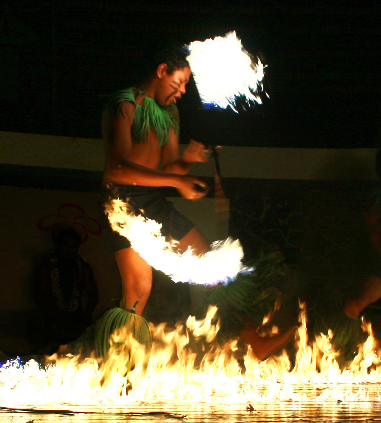 Boy performing a Samoa fire dance (siva afi) at a hotel in Apia.